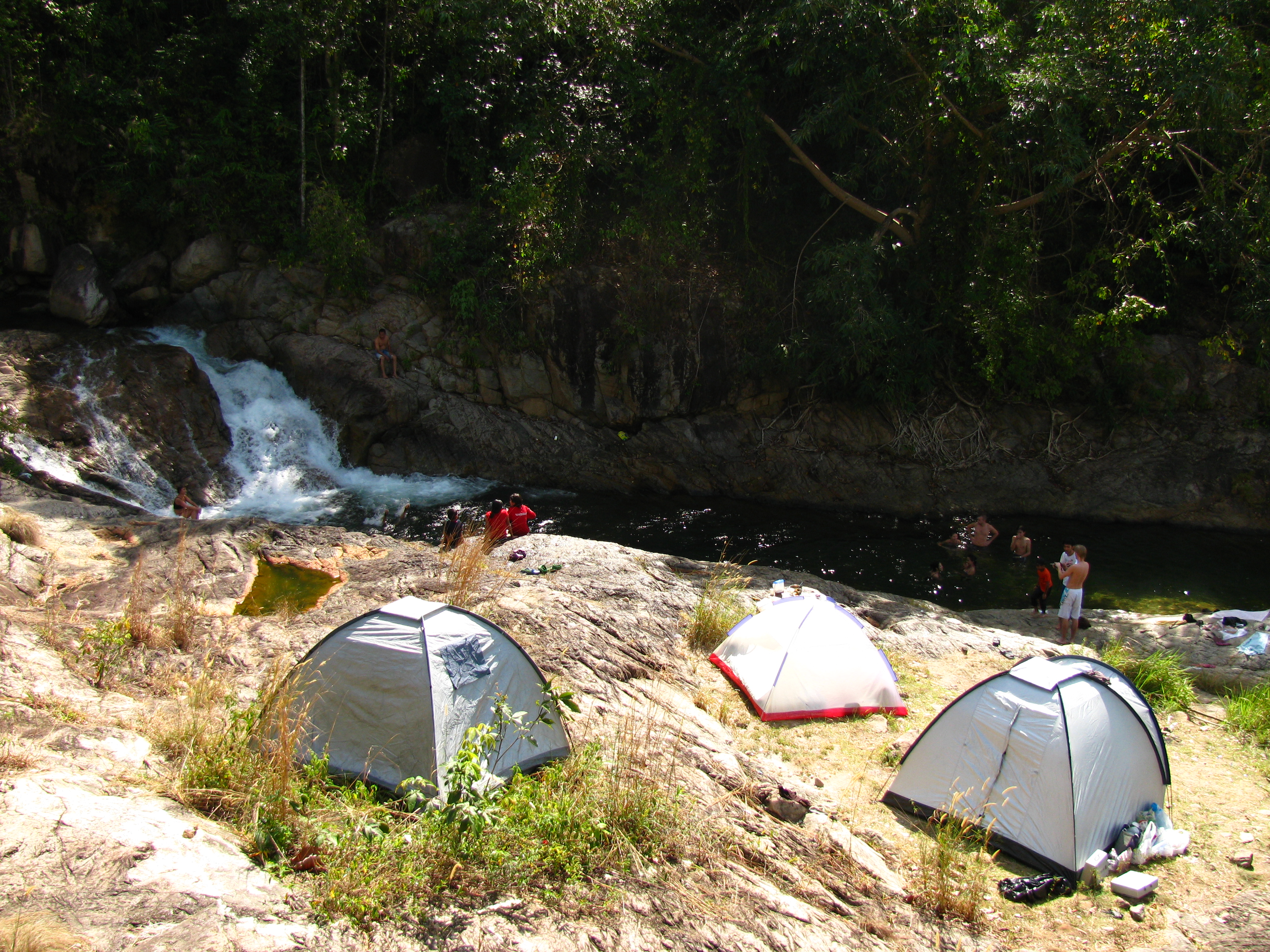 Berkelah Falls, third tier.